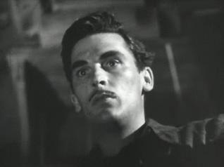 Cropped screenshot of Richard Hart (actor) from the film Desire Me